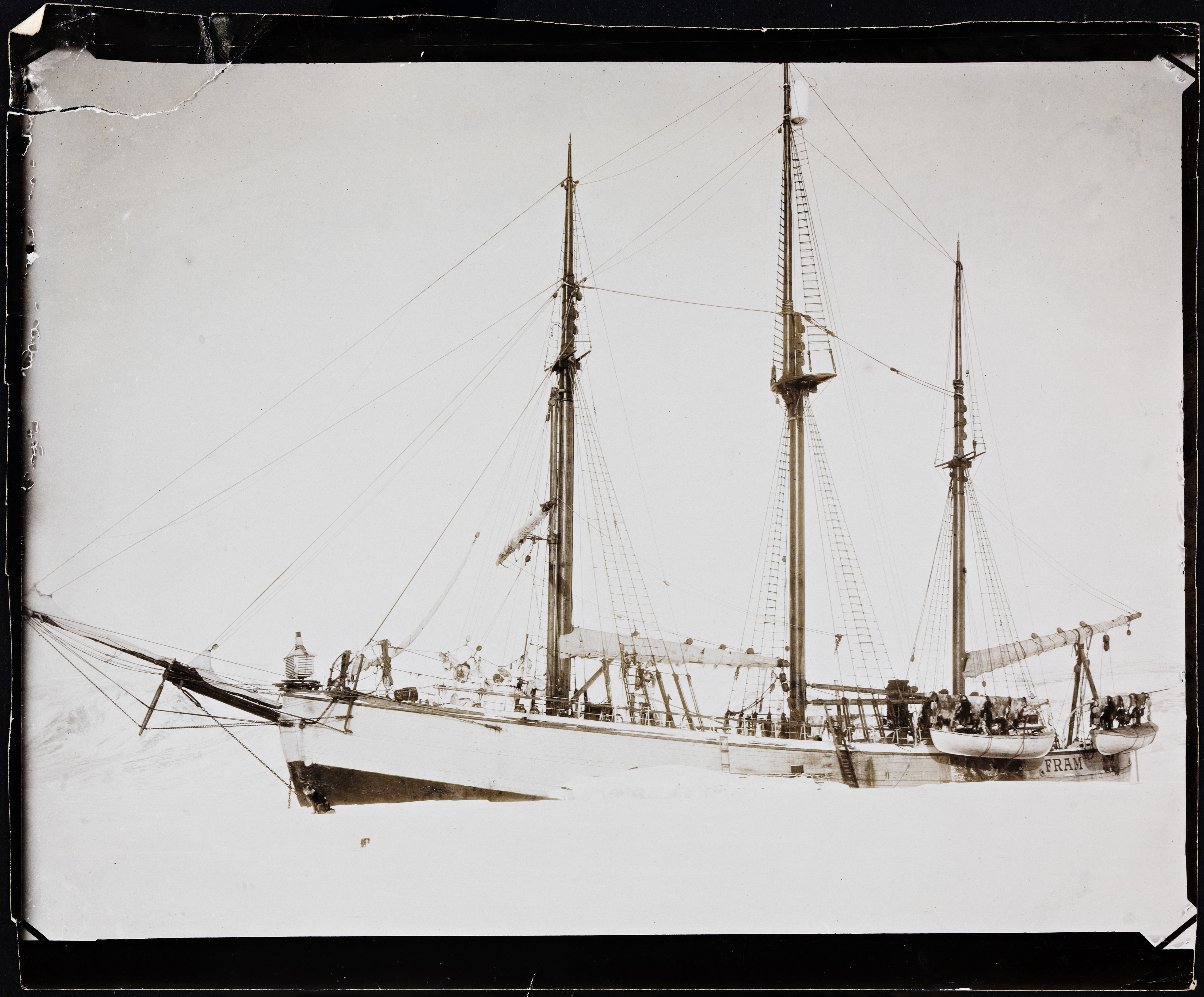 Beskrivelse / Description: 2. Fram-ekspedisjon: Nord-vest-Grønland og øyene nord for Øst-Canada : 1898-1902 / 2nd "Fram" expedition : Northwest Greeland and the islands North of East Canada Dato / Date: 1898-1902 Sted / Place: Arkits / the Arctic Fotograf / Photographer: ukjent / unknown Digital kopi av original / Digital copy of original: s/h papirpositiv Eier / Owner Institution: Nasjonalbiblioteket / National Library of Norway Lenke / Link: Bildesignatur / Image Number: bldsa_SVpos_159